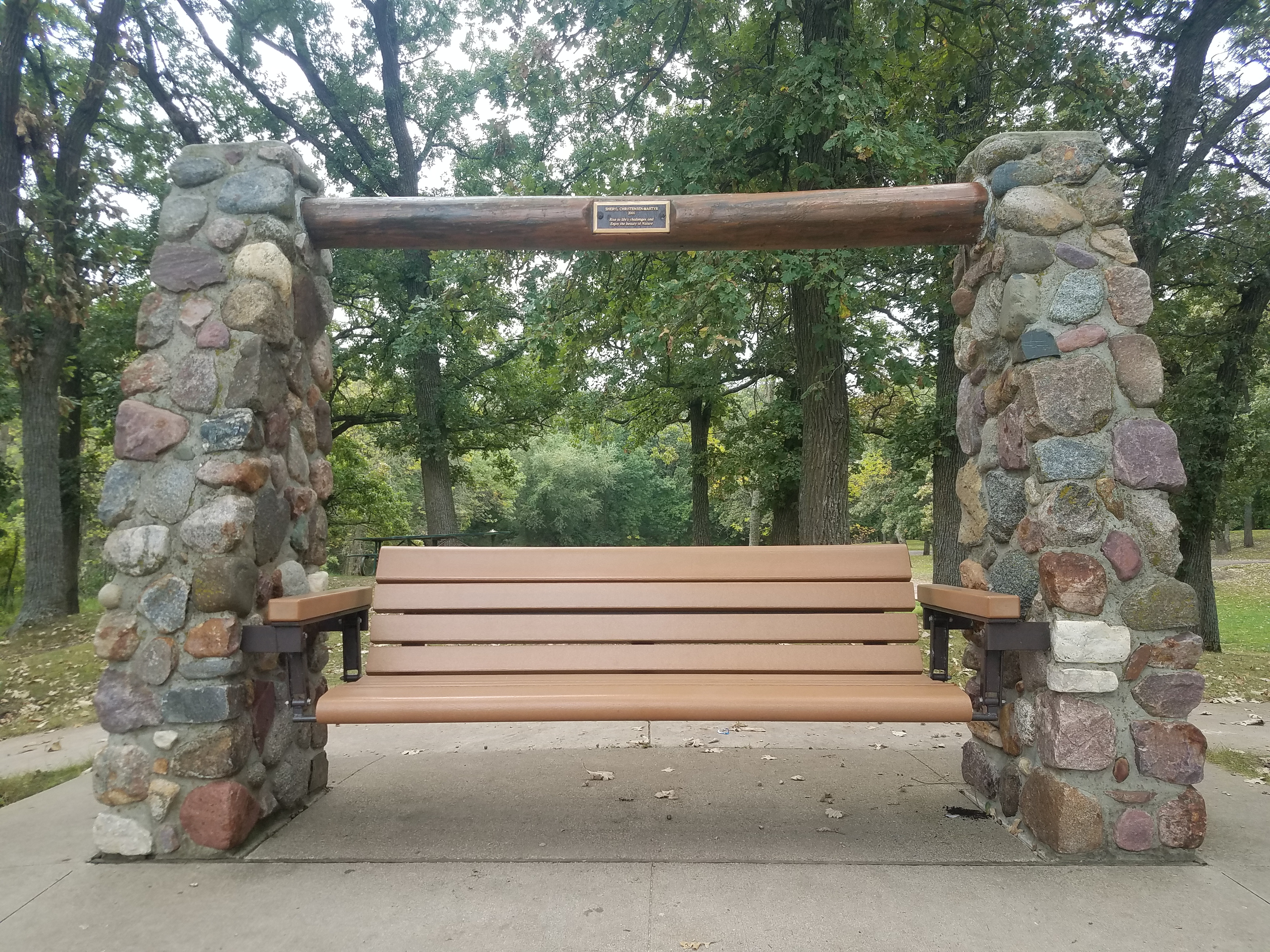 Dickinson County, Gull Point State Park, Area B. Wikidata has entry Q62926972 with data related to this item.